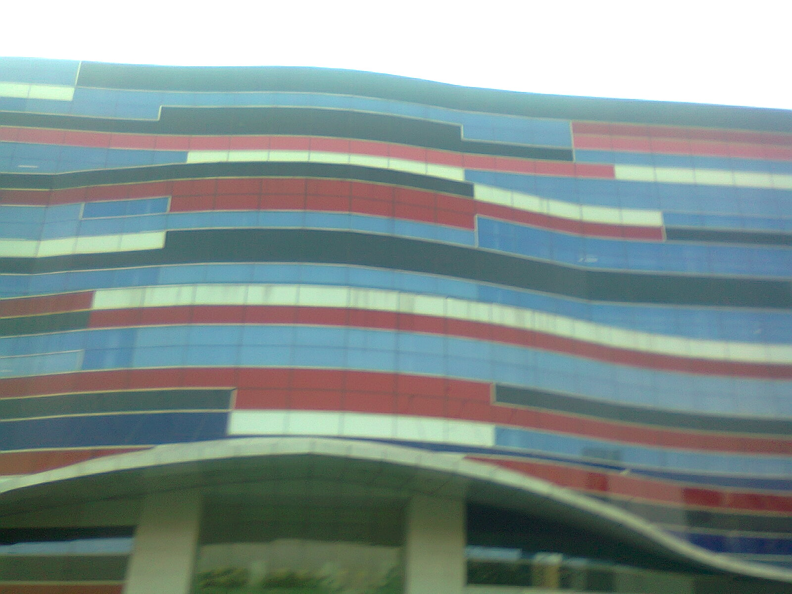 Head Office of Bharti Airtel